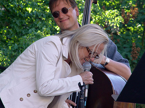 Marie Bergman, Chopenhagen Jazz Festival